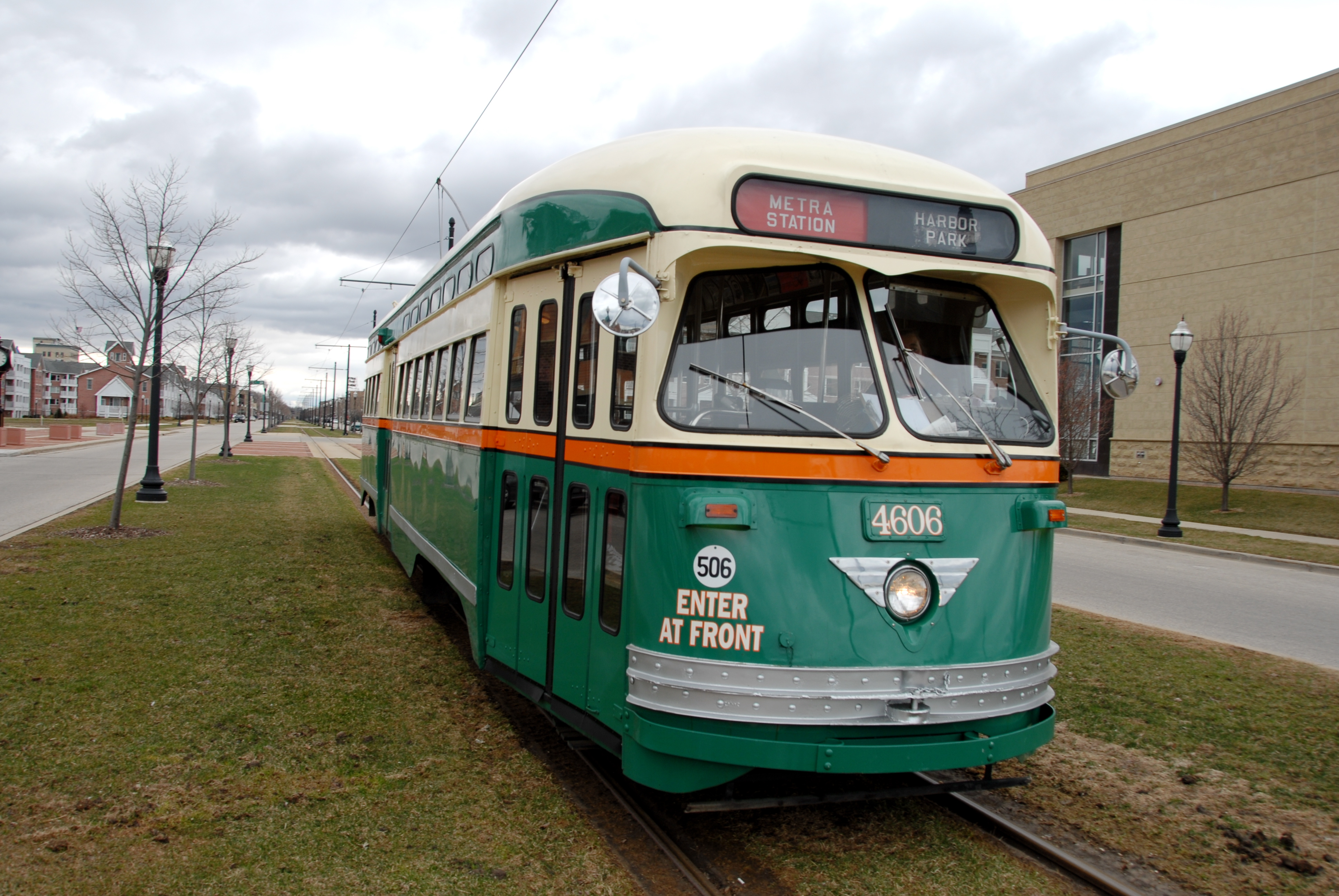 Kenosha #4606, an ex-Toronto PCC painted in Chicago Surface Lines "Green Hornet" livery.